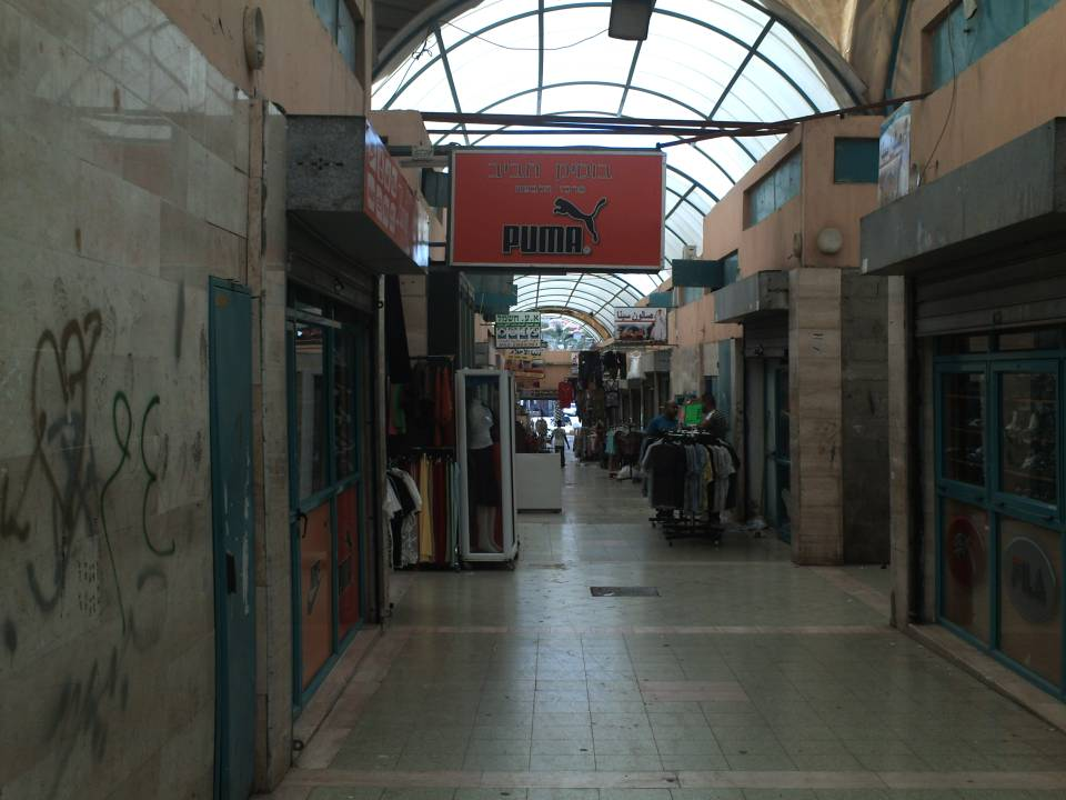 The market of Rahat, Israel.